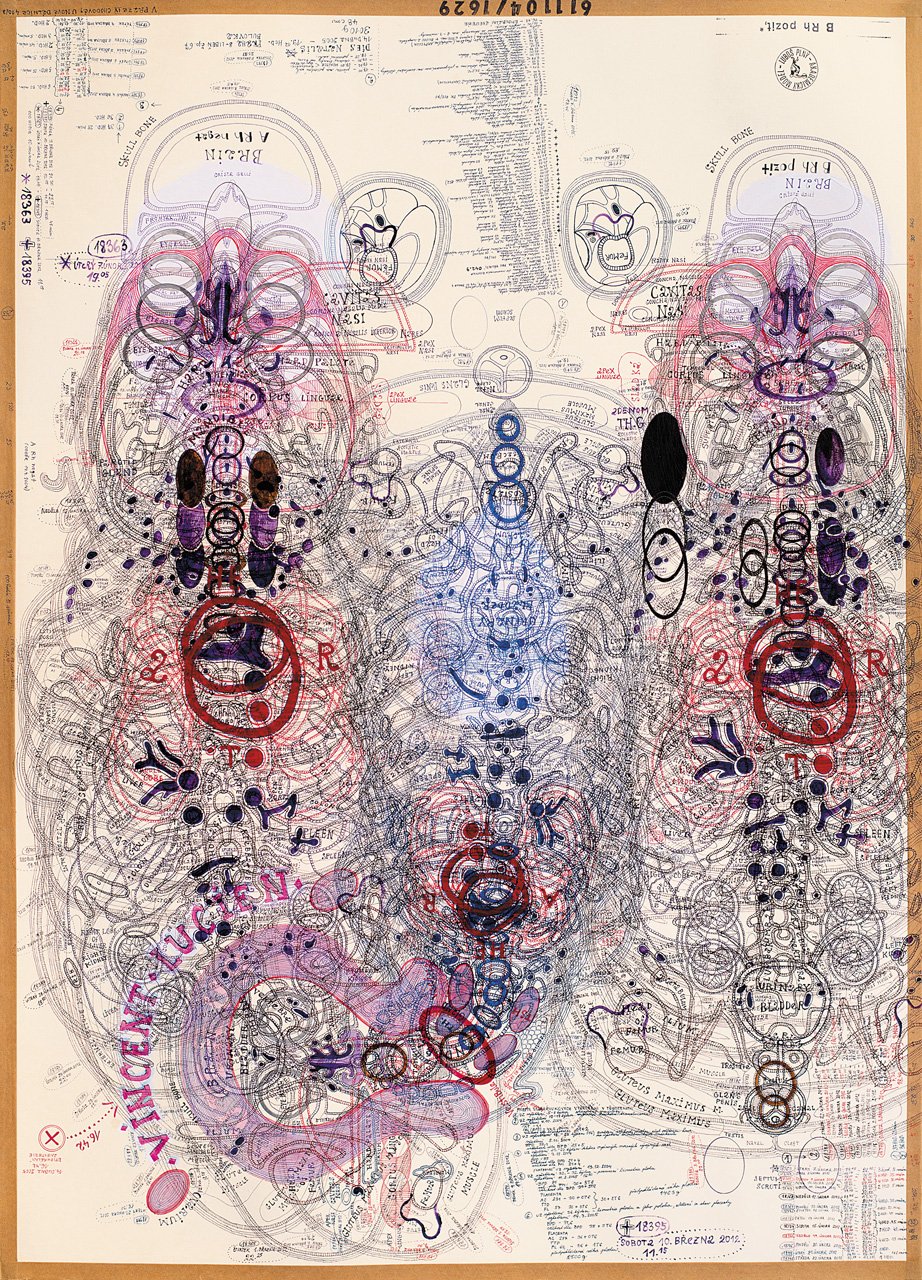 Luboš Plný, Untitled (2012), ink, acrylic and stamp on paper, 84 x 59 cm